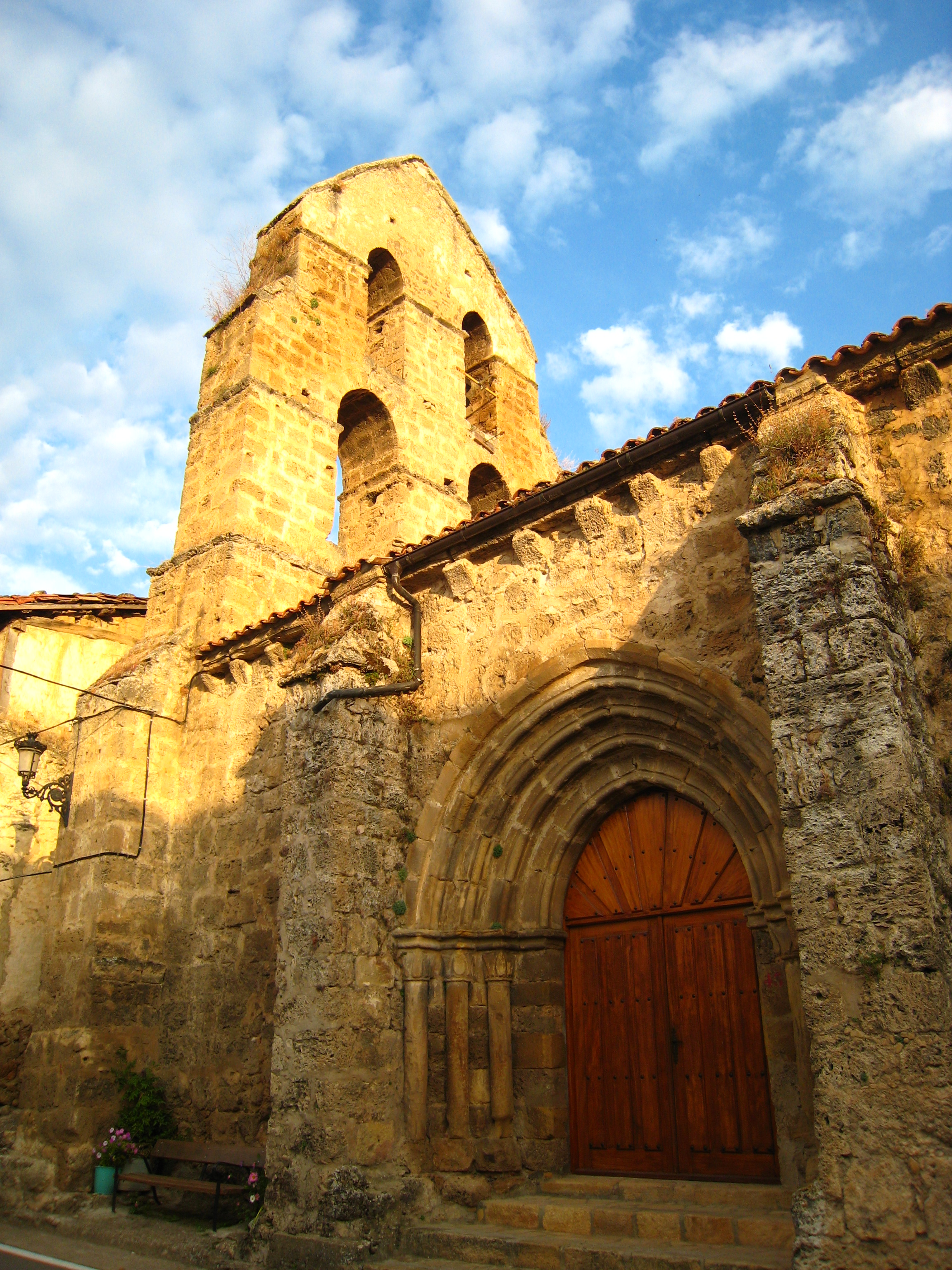 Church of San Vitores, Frías, Burgos (Spain)